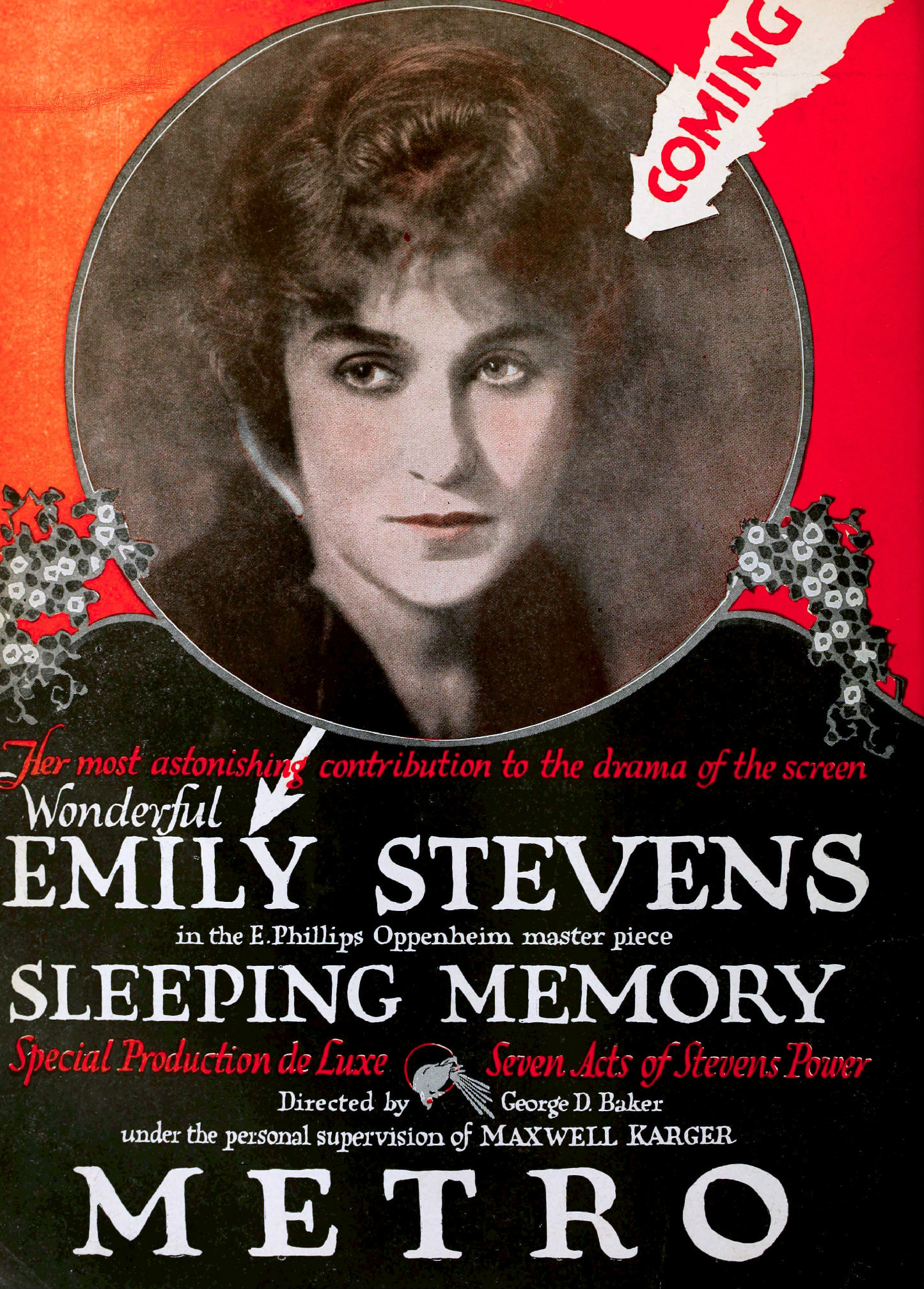 Ad for the 1917 film Sleeping Memory from Motion Picture World.